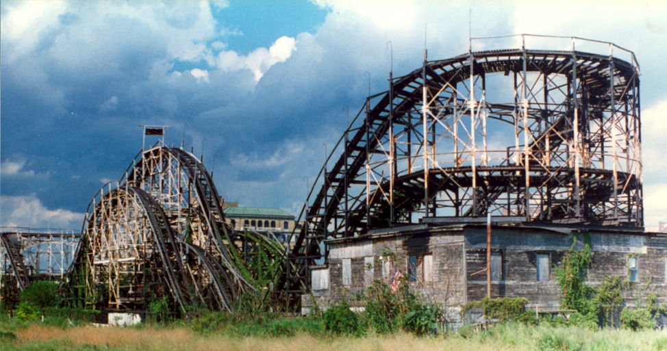 The former Thunderbolt roller coaster, Coney Island, Brooklyn, NY